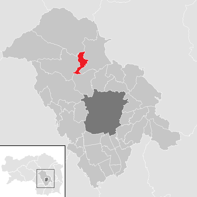 District Graz-Umgebung, Styria